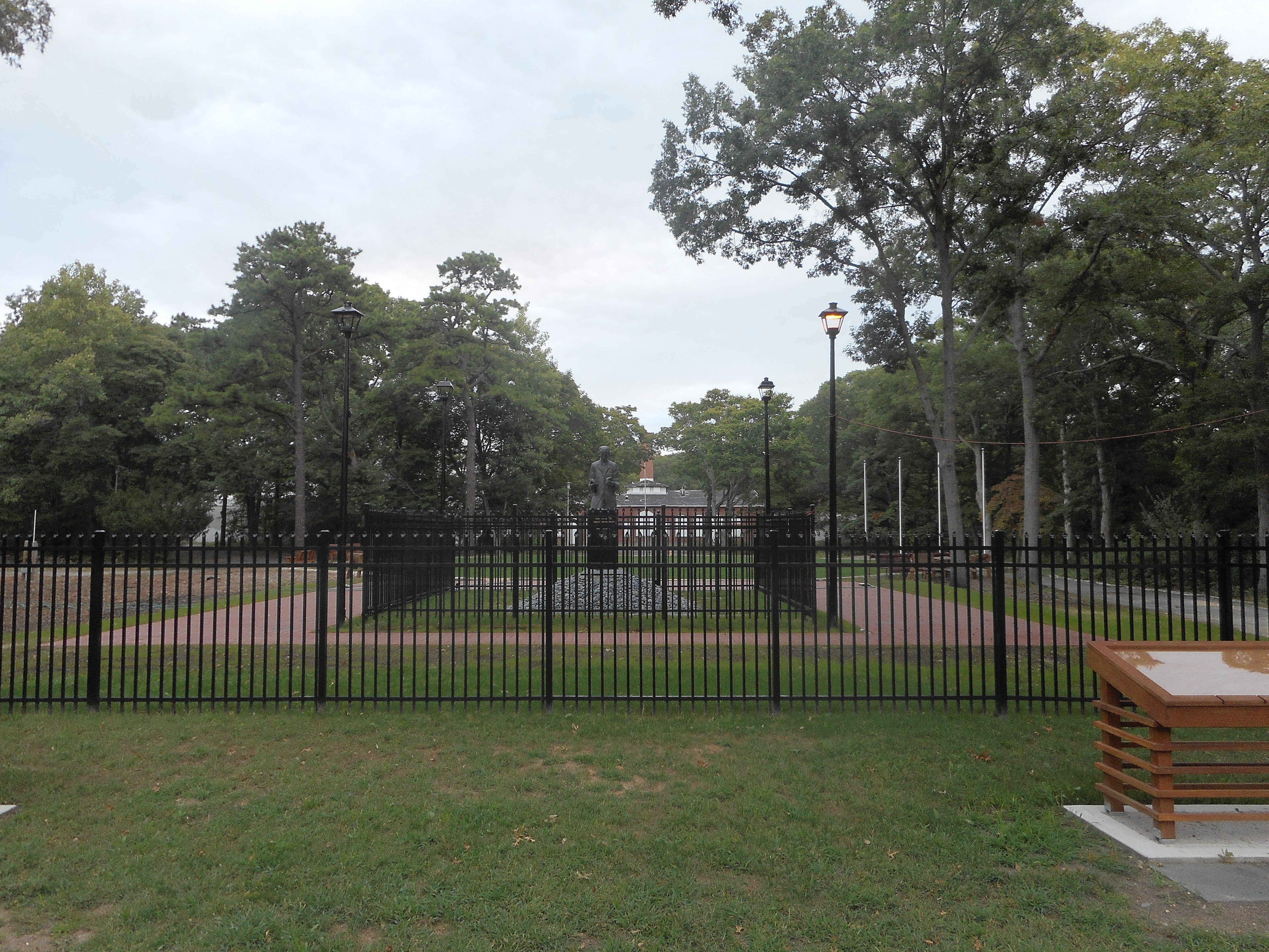 Statue of Nikola Tesla fenced in on the grounds of the site of the Wardenclyffe Tower as seen from New York State Route 25A in Shoreham, New York.